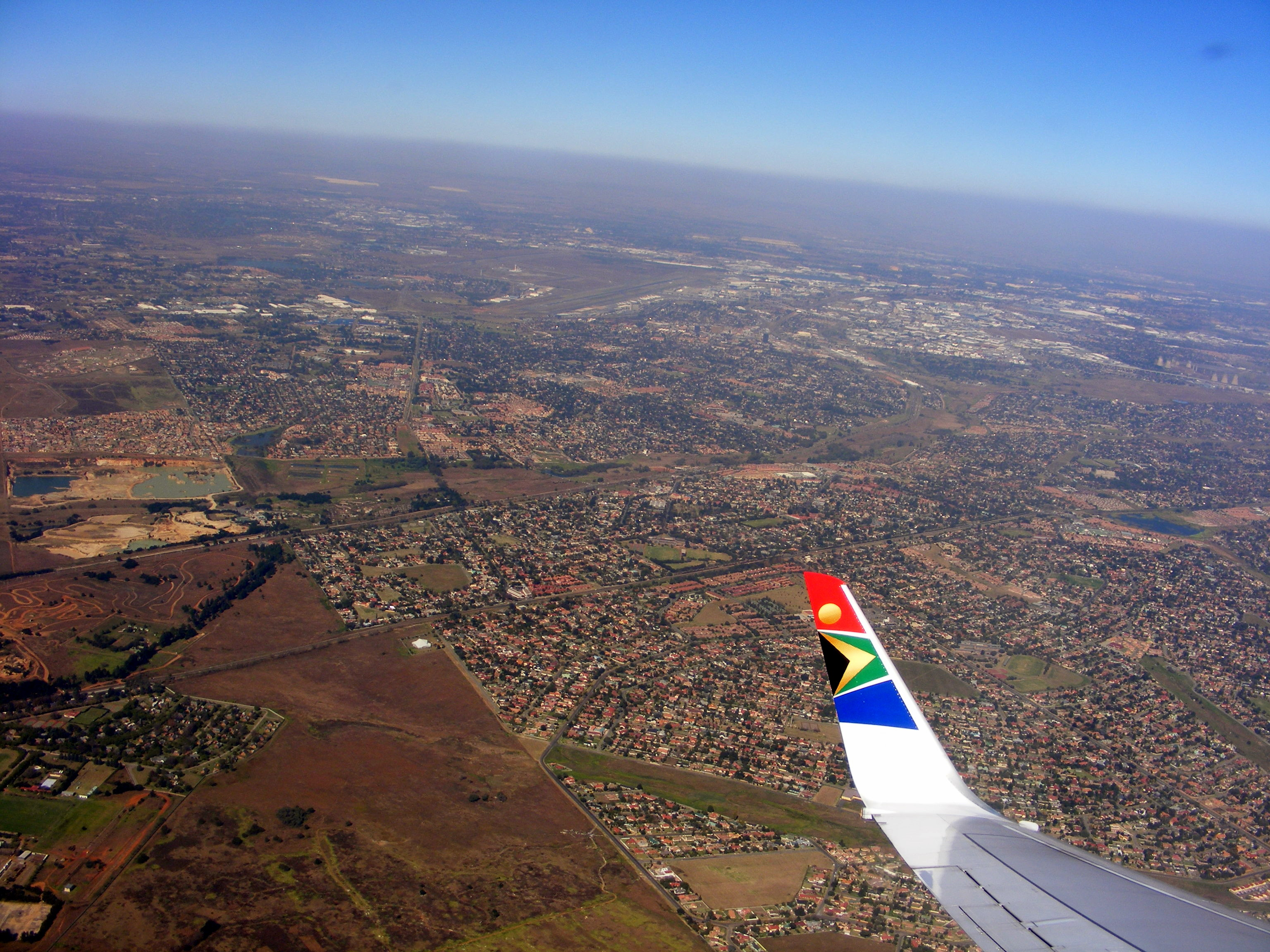 Esselen Park, Tembisa, 1626, South Africa